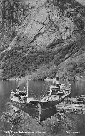 MS Tysnes and DS Hardangeren at Fjæra, Åkrafjorden, Hardanger, Norway. 1930.